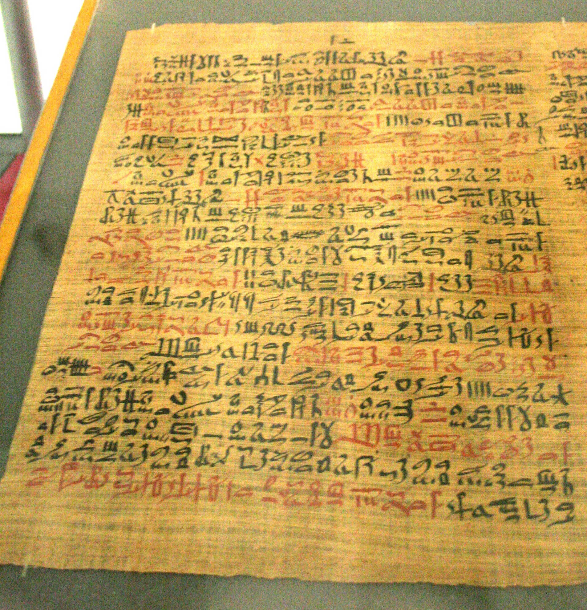 Papyrus Ebers, column 41